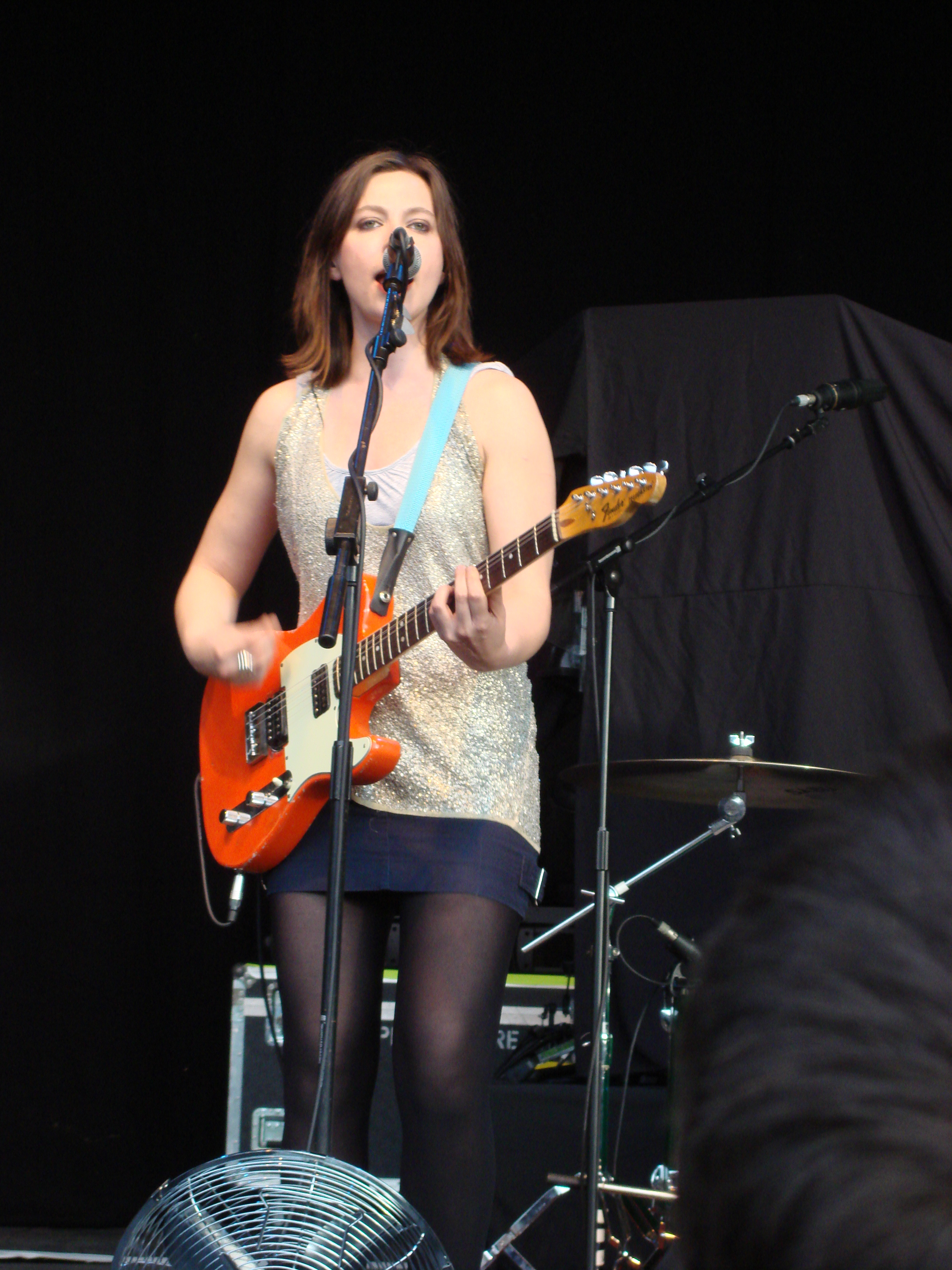 Charlotte Hatherley, BLONDIE support TOUR, Thetford Forrest, UK